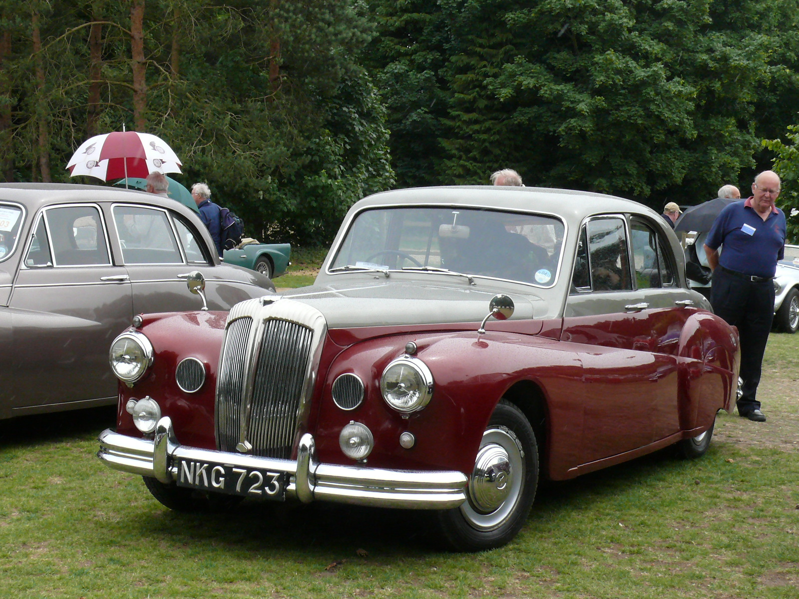 Daimler Sportsman sports saloon [NKG 723] Daimler & Lanchester Owners Club, International Rally, Queen's Birthday weekend, Sandringham, Norfolk Sunday 12 June 2011 (DVLA) 3348cc, reg 1 February 1957